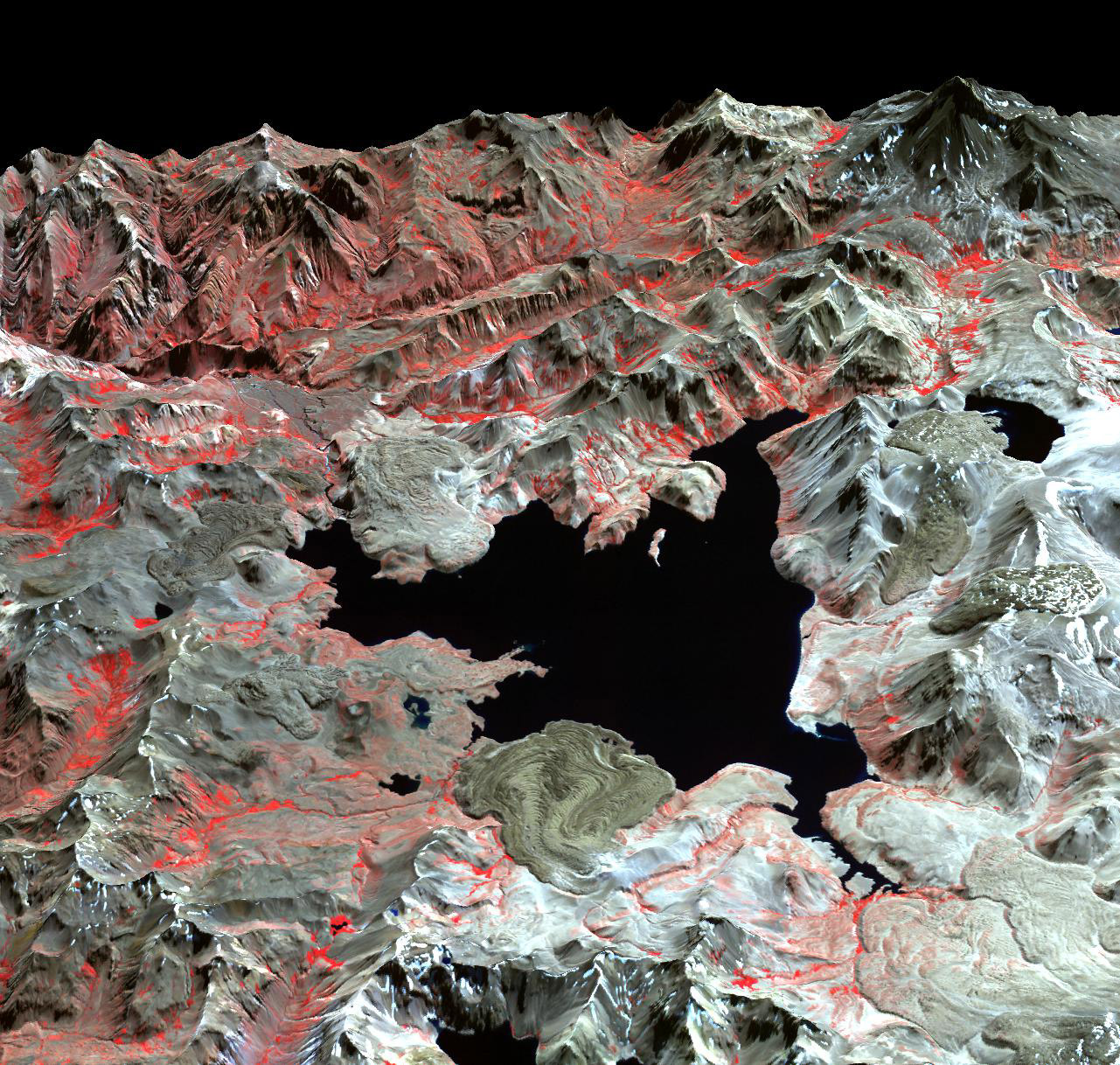 To download the full resolution and other files go to: In the Andean mountain range, stretching across the border between Chile and Argentina, lies a volcanic caldera named Laguna del Maule, roughly 15 by 25 kilometers (9 by 15 miles) across. Within the northern part of the caldera lies Maule Lake, which is surrounded by a complex volcanic landscape. This perspective image is made from data acquired by the Advanced Spaceborne Thermal Emission and Reflection Radiometer (ASTER) on NASA’s Terra satellite on April 9, 2003. ASTER produces images using infrared, red, and green wavelengths of light. In this image, vegetated areas range in color from red to pink, snow is white, water is black, and bare rock is earth-toned. Laguna del Maule holds an assortment of volcanic features, including small stratovolcanoes, lava domes, and cinder cones. Some of the most prominent features surrounding Lake Maule are lava flows. Some of those lava flows protrude into the lake, looking a little like dough spreading under its own weight. Volcanologists estimate that volcanoes at this site have been active over the past 10,000 years, but the date of the last eruption at Laguna del Maule is unknown. NASA image courtesy of GSFC/METI/ERSDAC/JAROS, and the U.S./Japan ASTER Science Team. Caption by Michon Scott. The Earth Observatory's mission is to share with the public the images, stories, and discoveries about climate and the environment that emerge from NASA research, including its satellite missions, in-the-field research, and climate models.